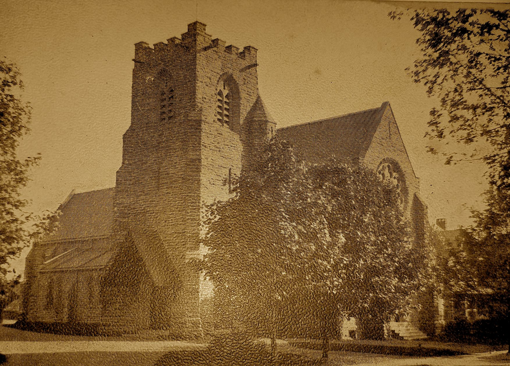 Church of the Good Shepherd (Rosemont, Pennsylvania) ca. 1910